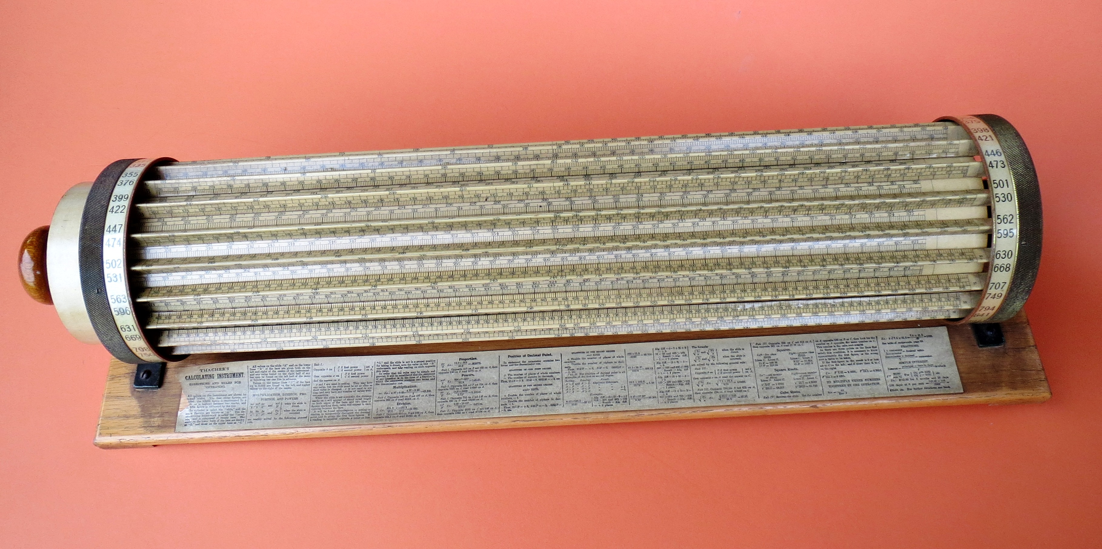 Thacher's Calculating Instrument, patented in 1881, can be thought of as a series of conventional slide rules mounted around the periphery of a cylinder. There are 20 pairs of scales forming the outer framework of the cylinder. Within this framework there is a solid cylinder that can be both rotated and moved longitudinally within the framework of scales. The open framework itself can also be rotated as a unit. Thacher's Calculating Instrument was mounted on a mahogany base and produced by the Keuffel and Esser Company of New York.